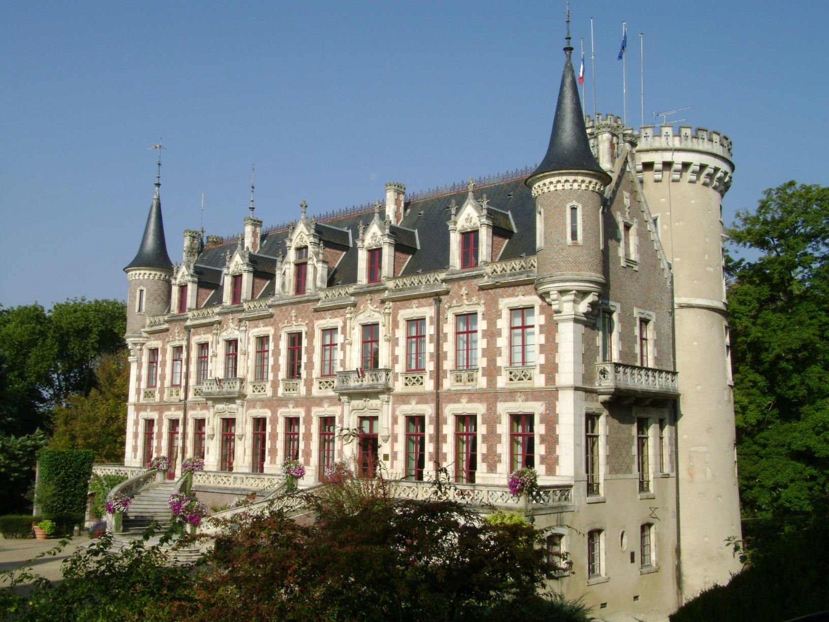 Saint-Florent-sur-Cher (France) city hall front